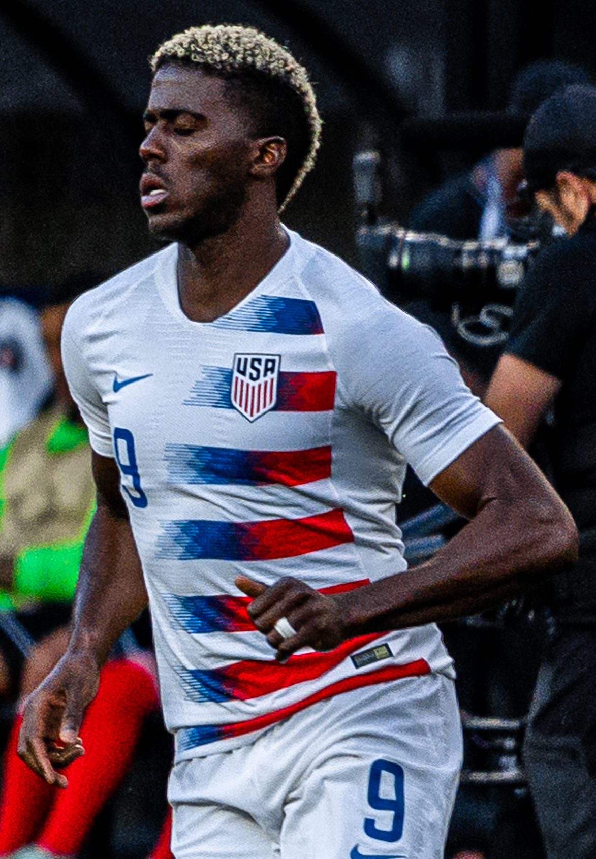 USMNT vs. Trinidad and Tobago